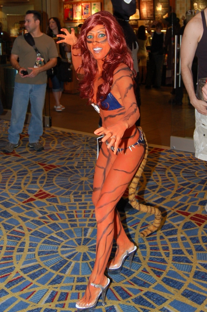 Tigra, Dragon Con 2008